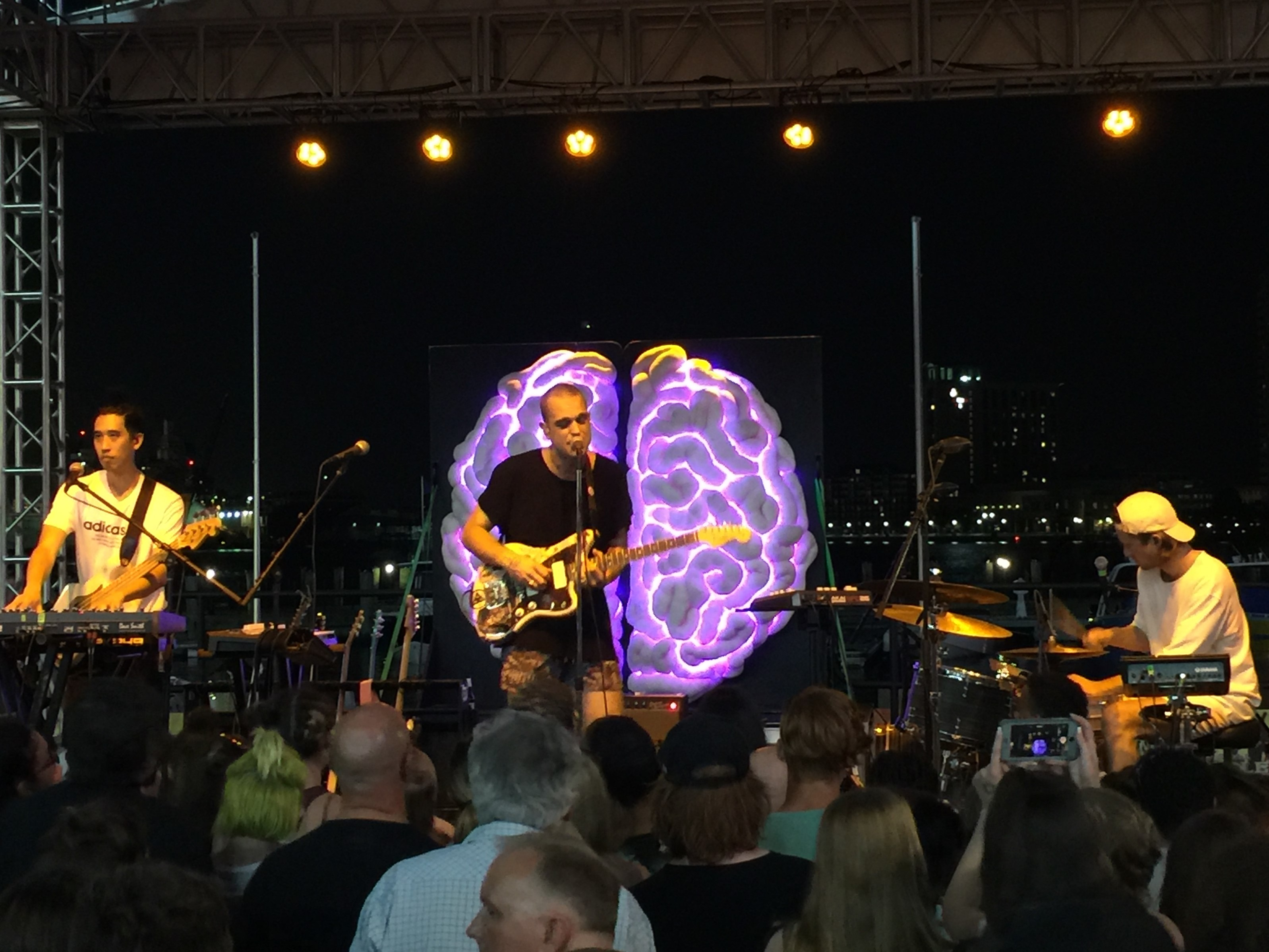 American indie rock band Sir Sly playing live in Norfolk, Virginia in 2018